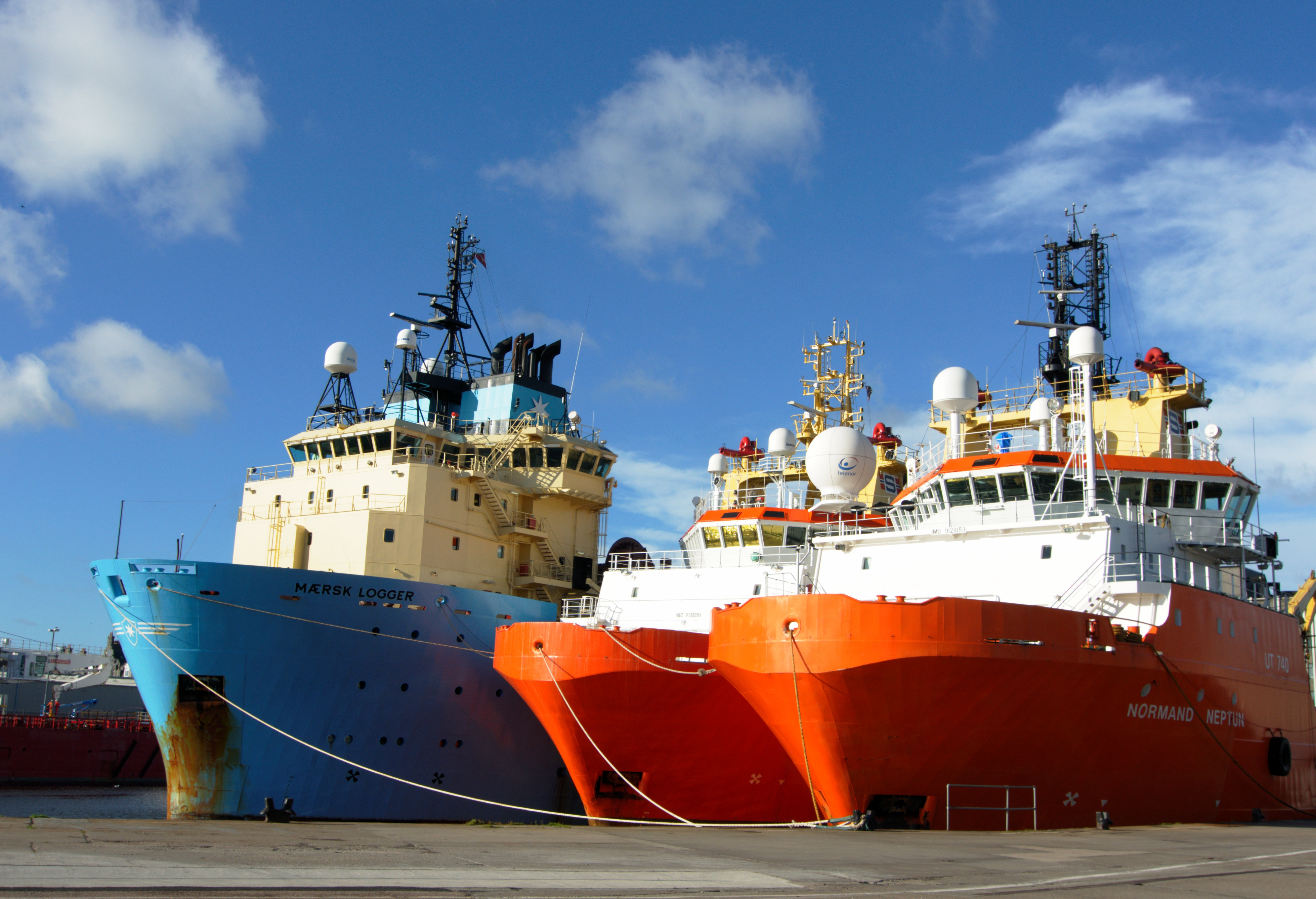 Tug supply ships in Aberdeen's harbour